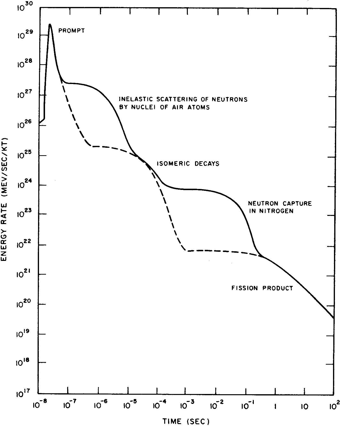 Calculated time dependence of the gamma-ray energy output per kiloton energy yield from a hypothetical nuclear explosion. The dashed line refers to an explosion at very high altitude.